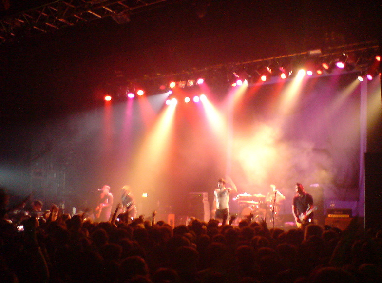 This image is of Alexisonfire, a Canadian band.